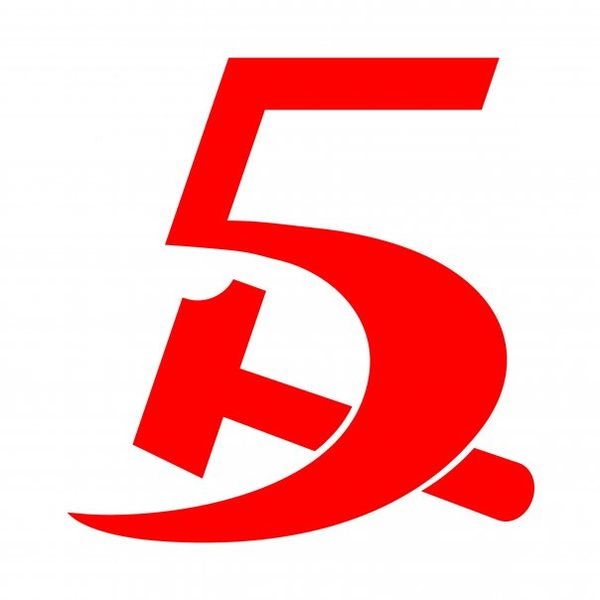 Logotip fifth international